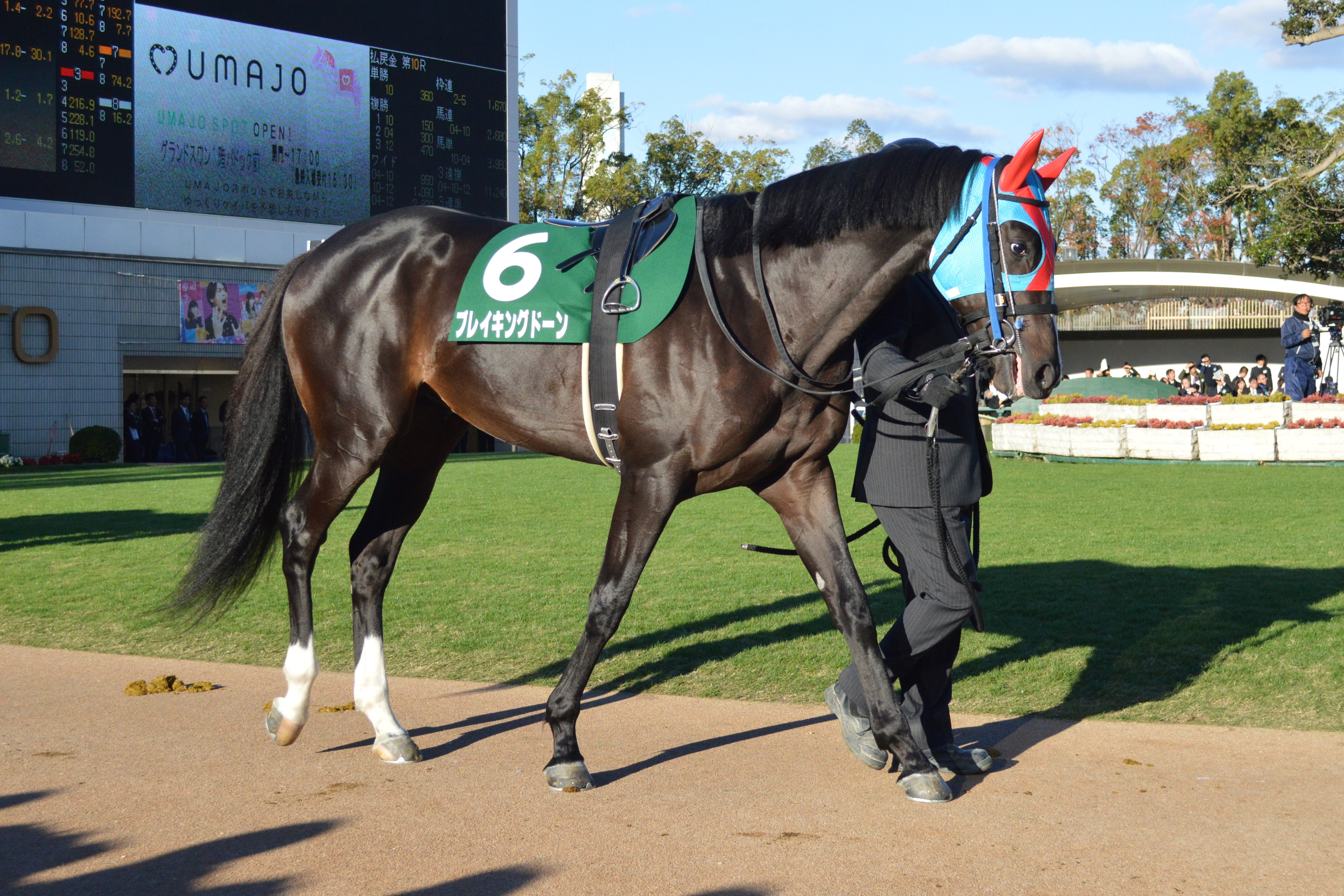 Japanese race horse Breaking Dawn at Kyoto racecourse.